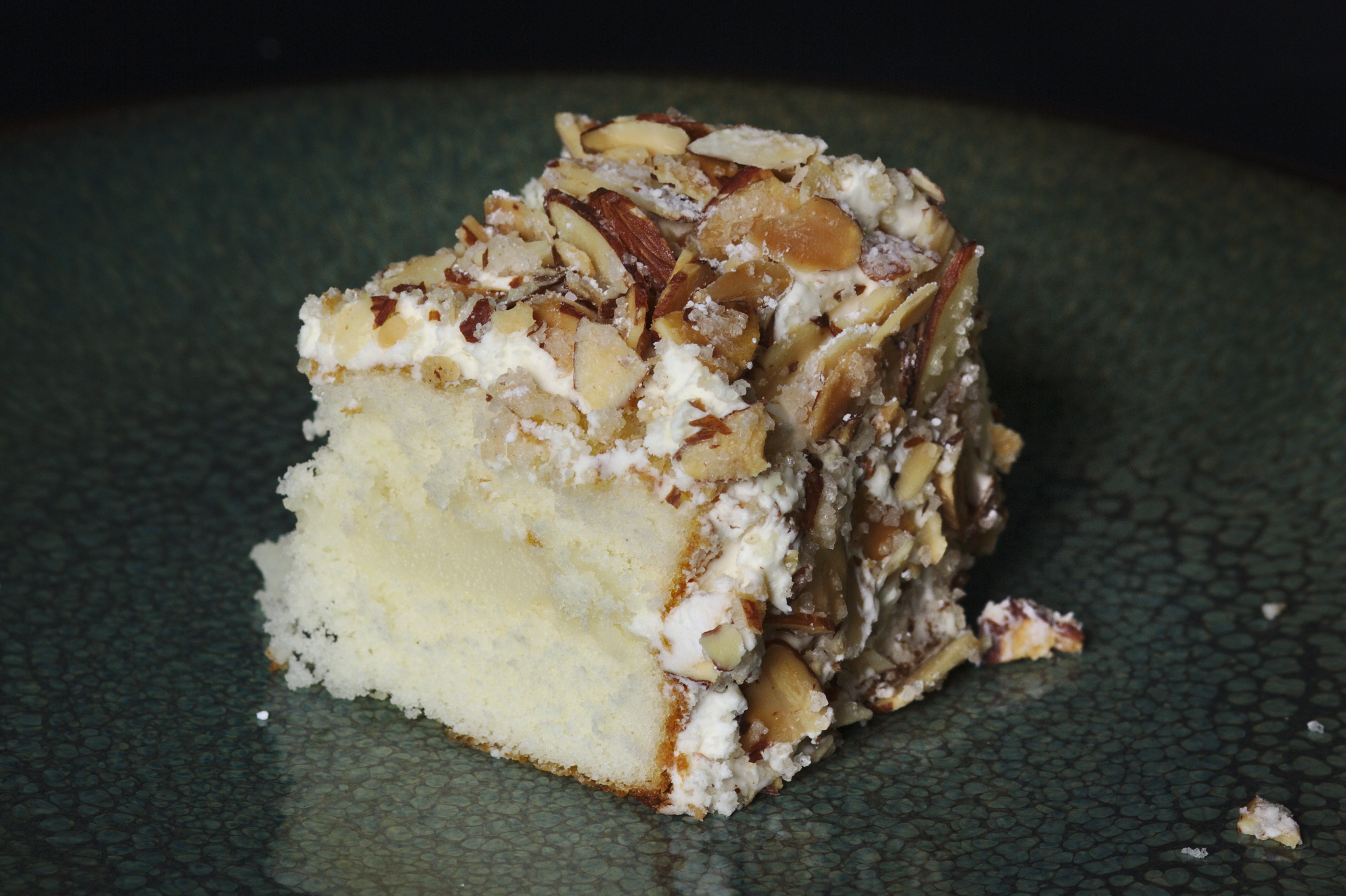 The famous Burnt Amond Torte from Prantl's Bakery in Pittsburgh